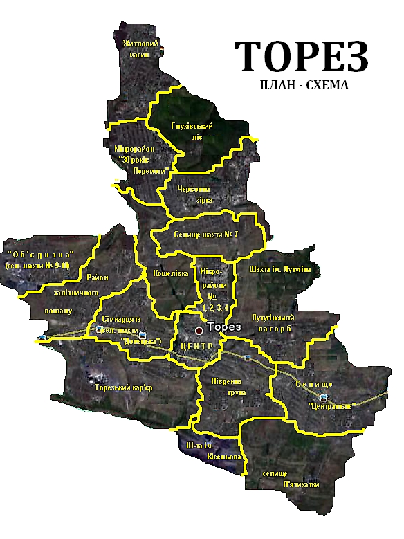 map Torez (Ukraine)